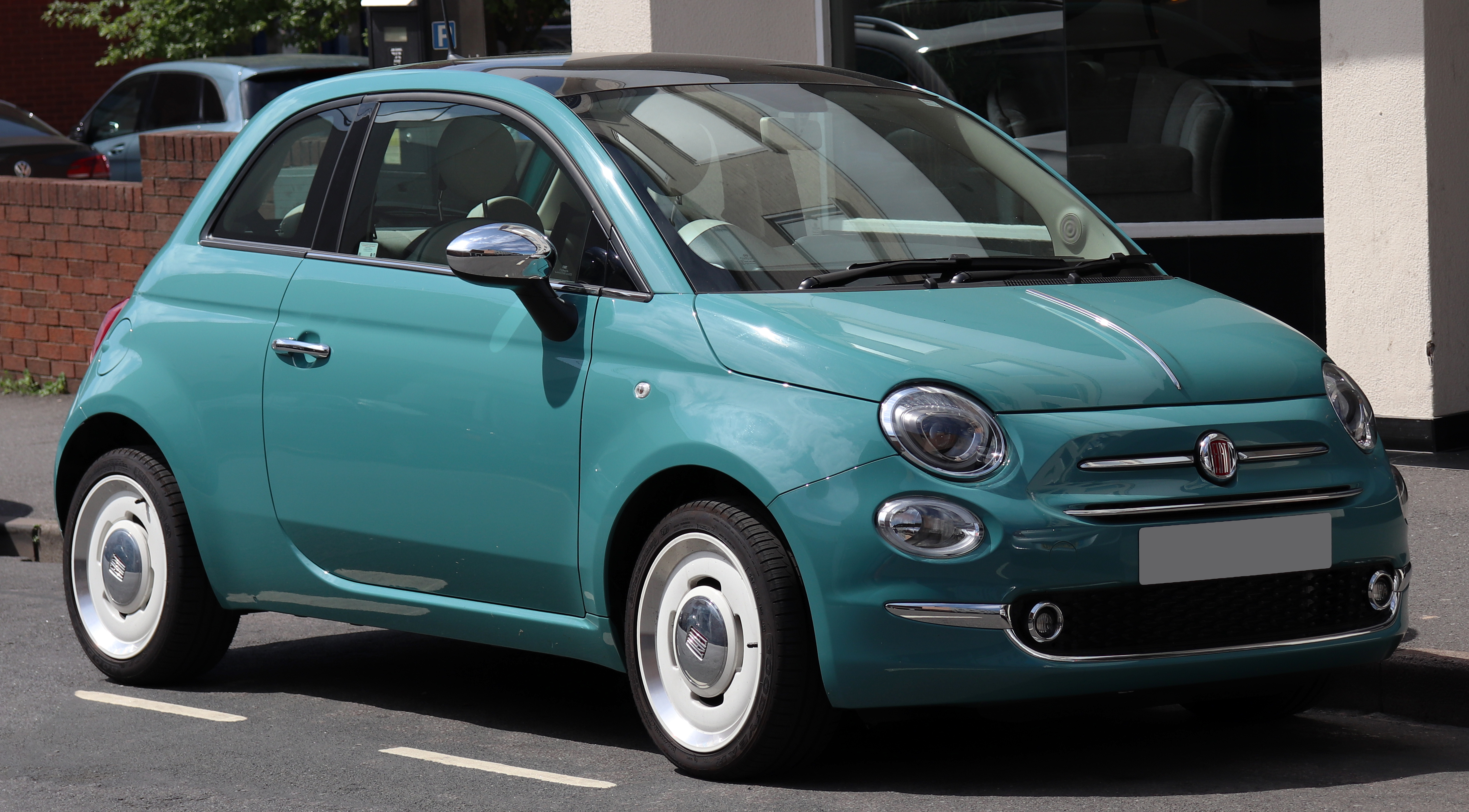 2017 Fiat 500 Anniversario 1.2 Front Taken in Leamington Spa